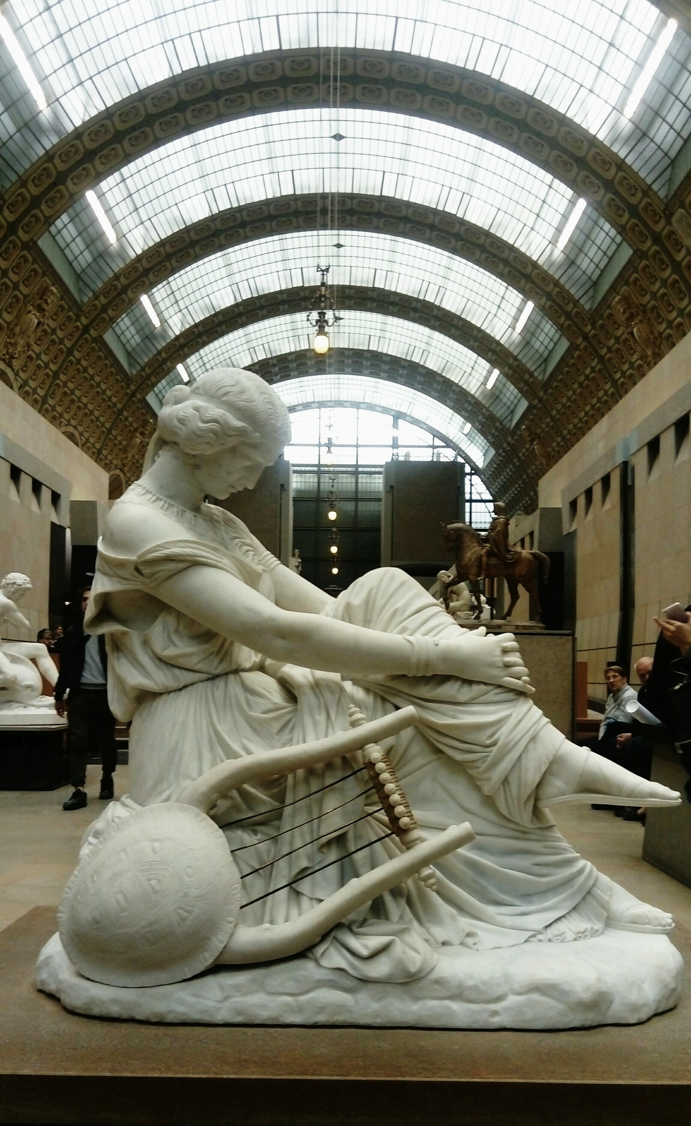 "Sapho", marble sculpture made by James Pradier in 1852, exhibited in the Musée d'Orsay in Paris (France). It shows the Greek poetess Sappho with her lyre thinking of suicide.